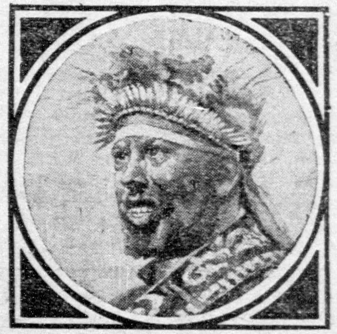 Image of Manelik II as he was depicted in a 1901 newspaper